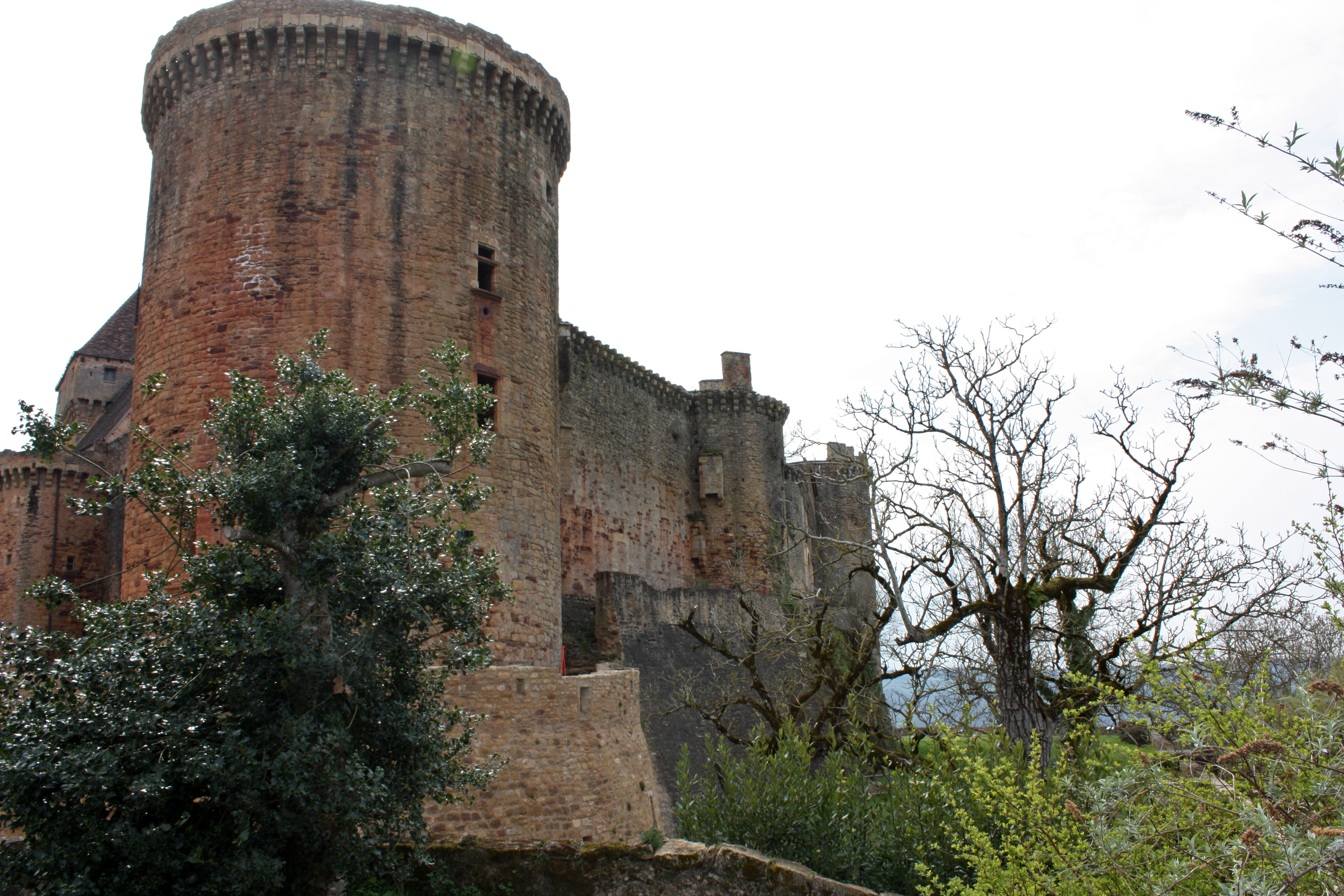 The military tower (Tower or artillery) is the most imposing of the three corner towers. It was built in the fithteen century.